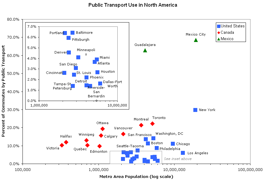 Public Transport in Major North American Metro Areas